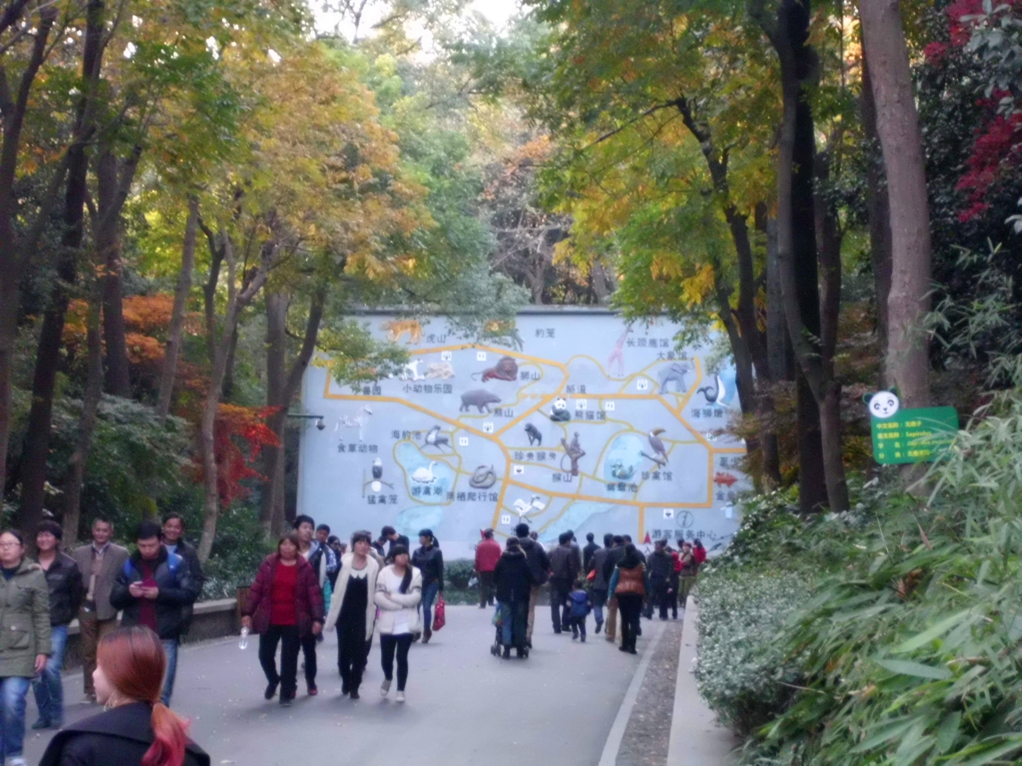 Hangzhou Zoo